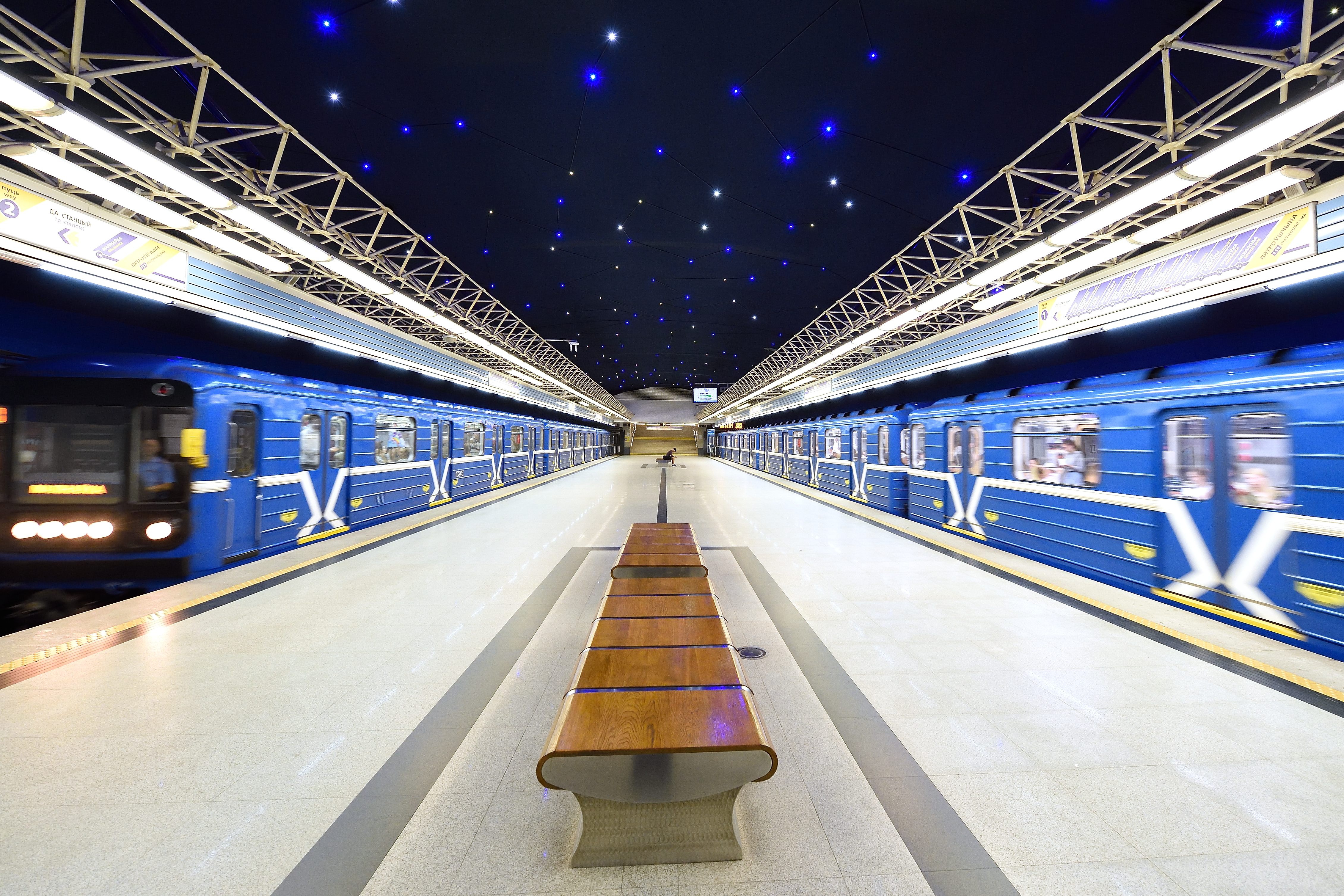 Piatroushchyna (Пятроўшчына) metro station in Minsk, Belarus.